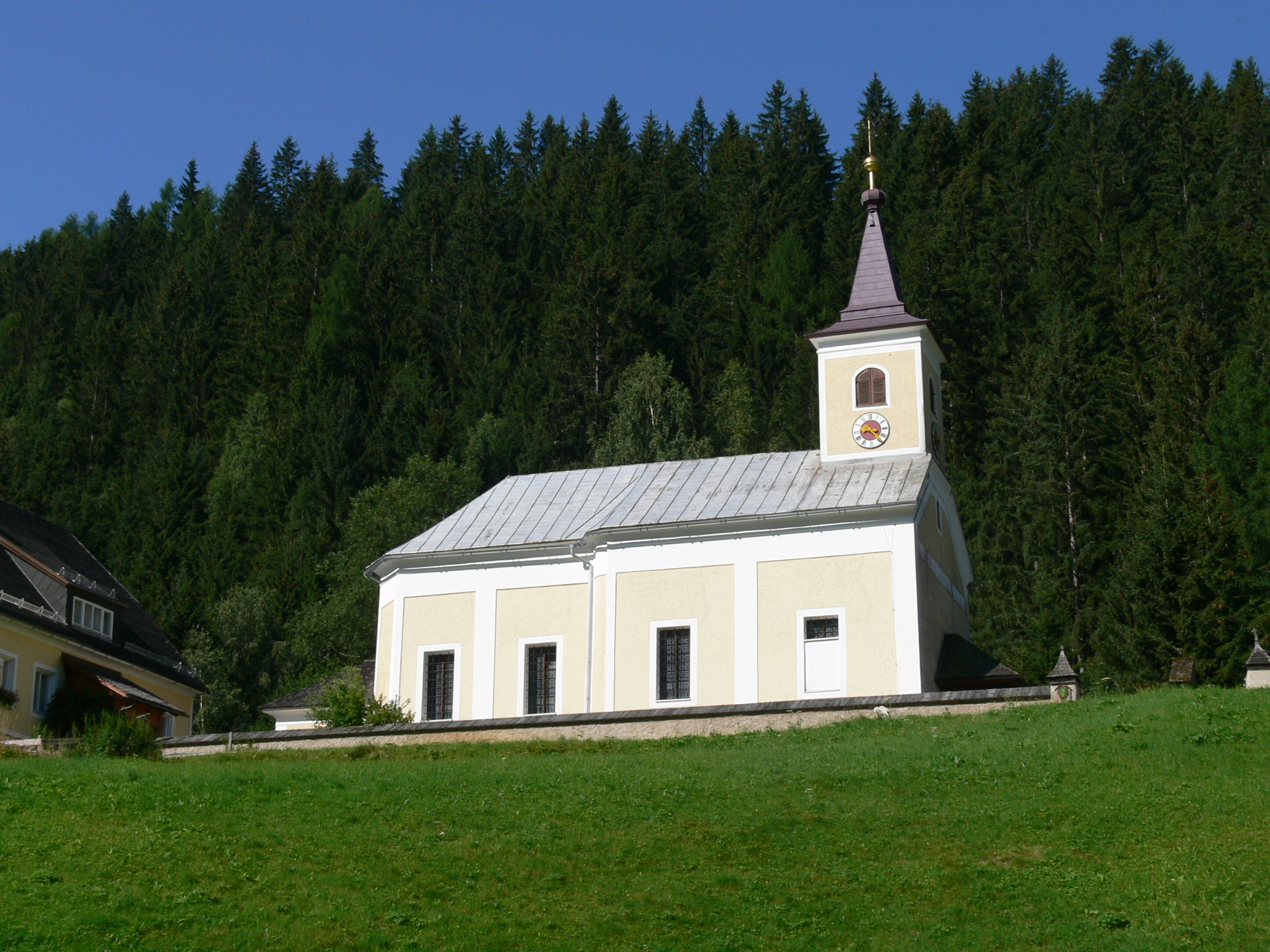 Church of St.Leonhard ( 1754 ) in Donnersbachwald